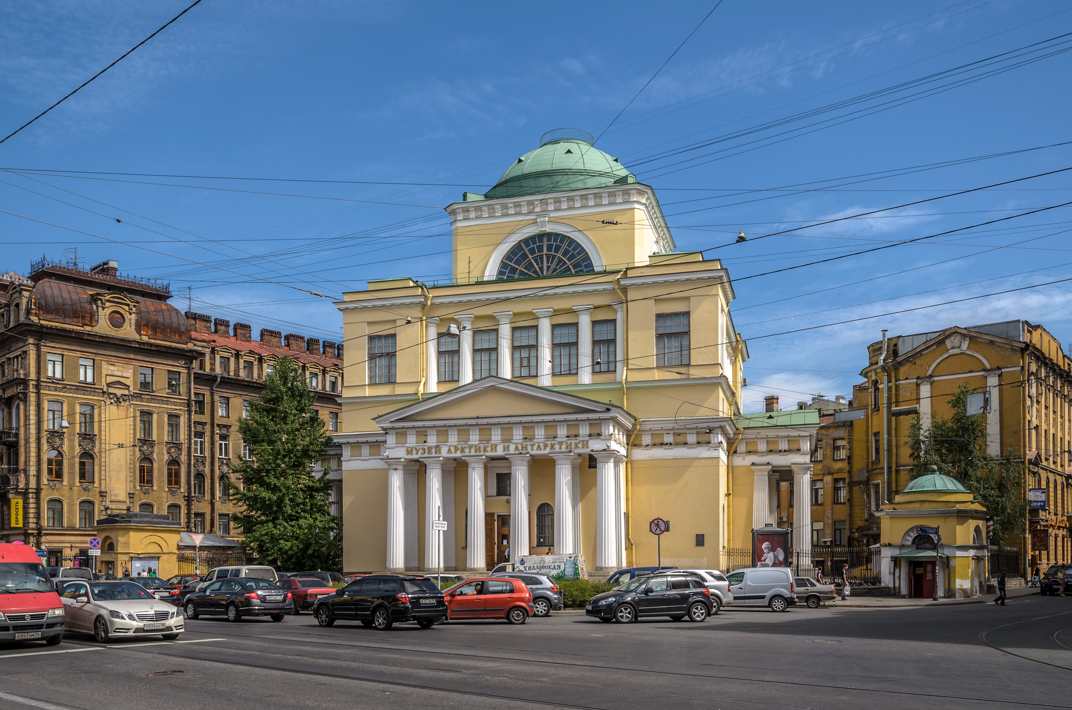 Arctic and Antarctic Museum in Saint Petersburg